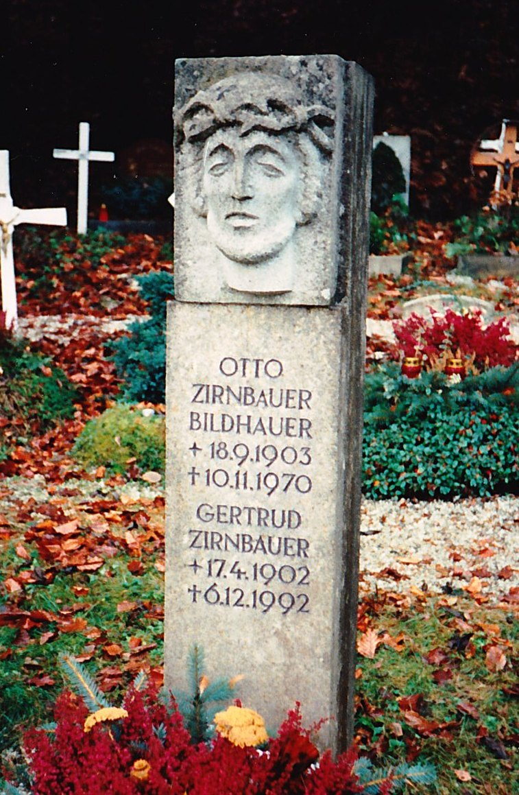 Sepulchral stele of sculptor Otto Zirnbauer (1903-1970) and of his wife Gertrud (1902-1992) at the cemetery Innstadtfriedhof in Passau with an portrait of Christ made by Otto Zirnbauer